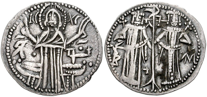 Coin depicting Ivan Alexander of Bulgaria with his son Michael Asen IV. Source: CNG Coins Description: BULGARIA, Second Empire. Ivan Aleksandar, with Mihail Asen IV. 1331–1371. AR Grosh (20mm, 1.86 g, 6h). Type II. Struck circa 1331-1355. Christ, nimbate, standing facing, raising hands in benediction; IC XC flanking head, monograms and pellets to either side / Ivan and Mihail standing facing, each holding scepter; banner between, stars flanking shaft; monograms around figures. Raduchev & Zhekov 1.13.3; Youroukova & Penchev 77. Good VF, toned.